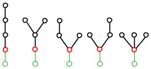 5 rooted planar trees with 4 nodes